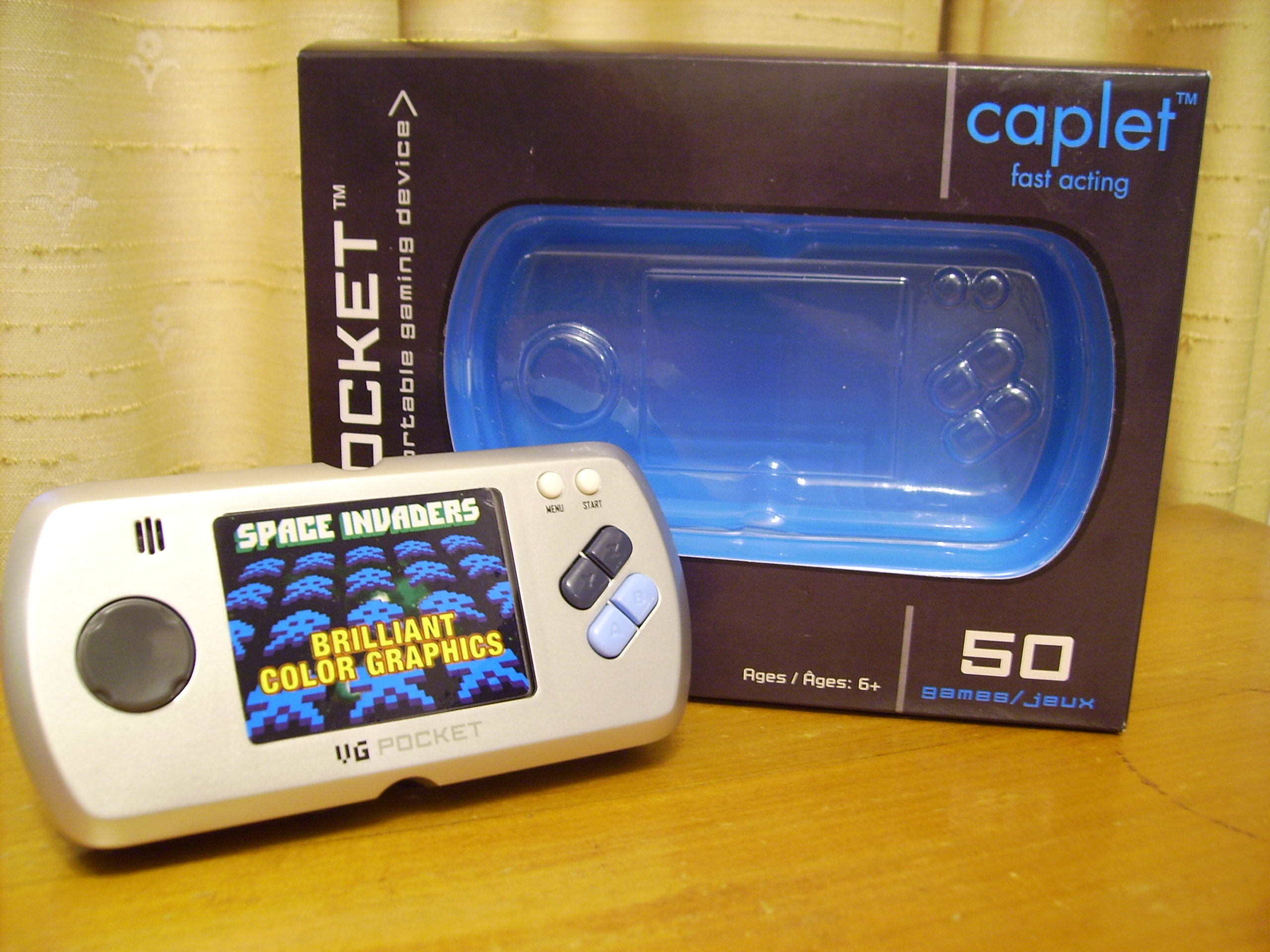 VG Pocket Caplet, retro machine